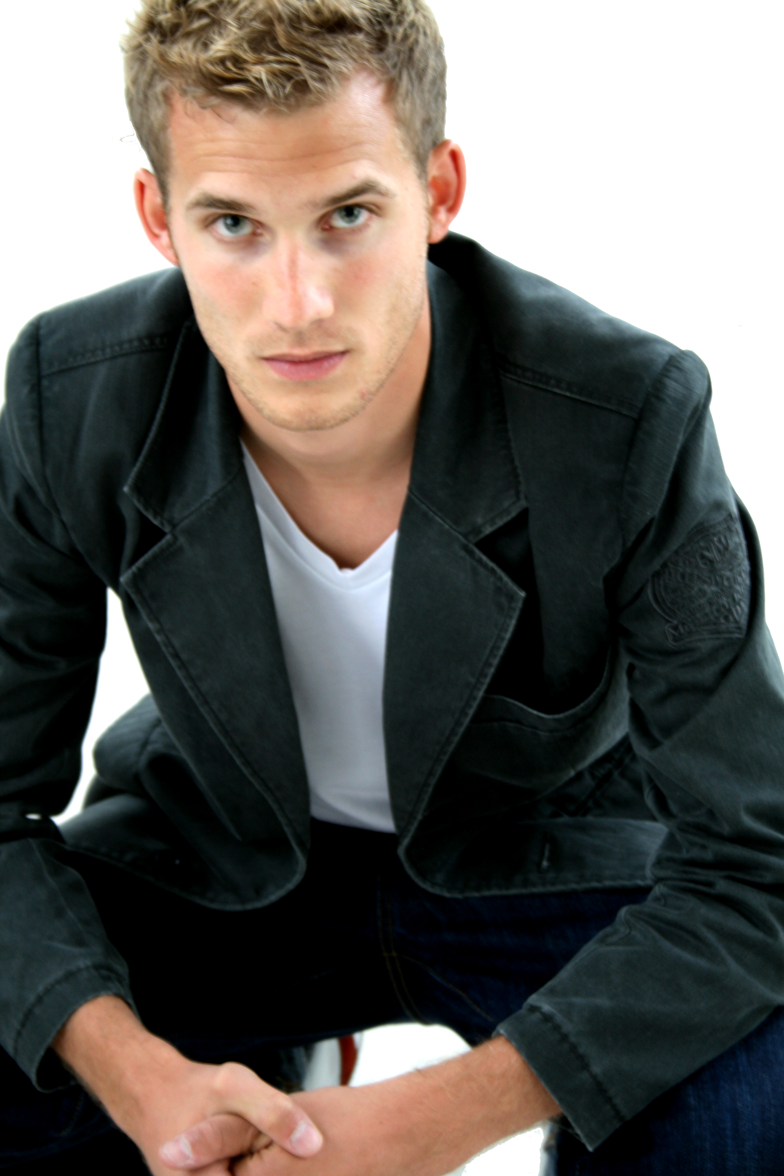 Thomas Fleischmann